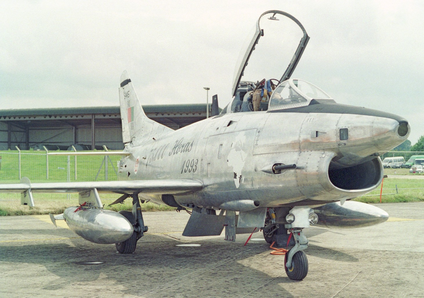 Fairford (FFD / EGVA) UK - England, July 24, 1993.